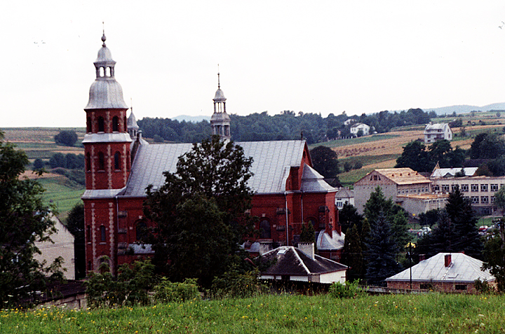 Our Lady of Ascension Church, 1996 photo